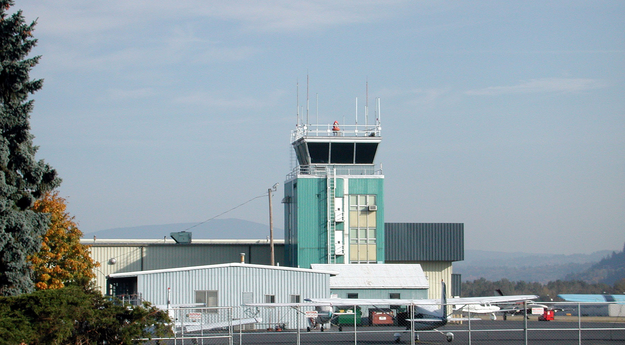 Control tower at the Portland-Troutdale Airport in Troutdale, Oregon. Photo looks east from a service road at the airport.